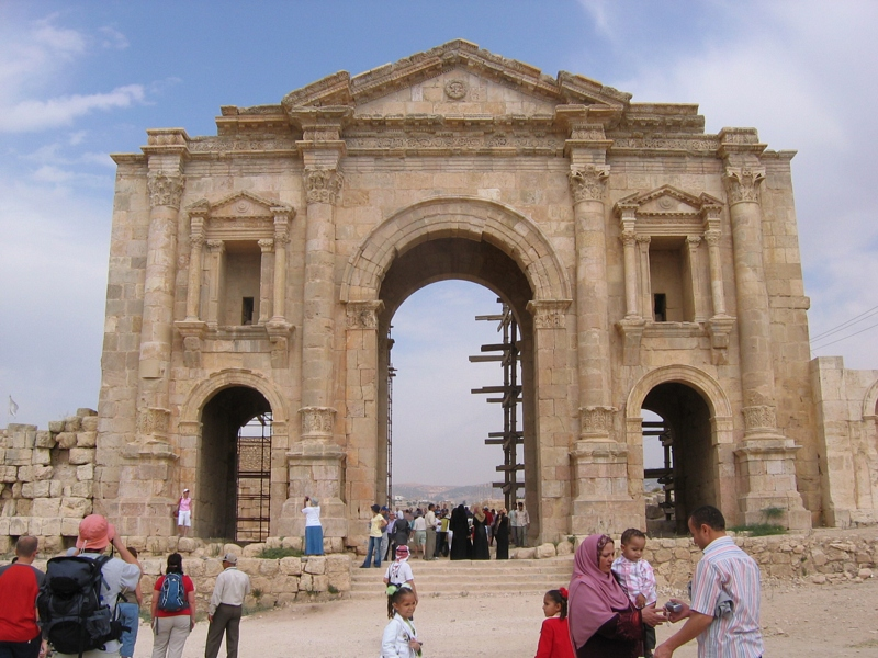 Hadrian's arch, the entrance to the roman city of Jerash